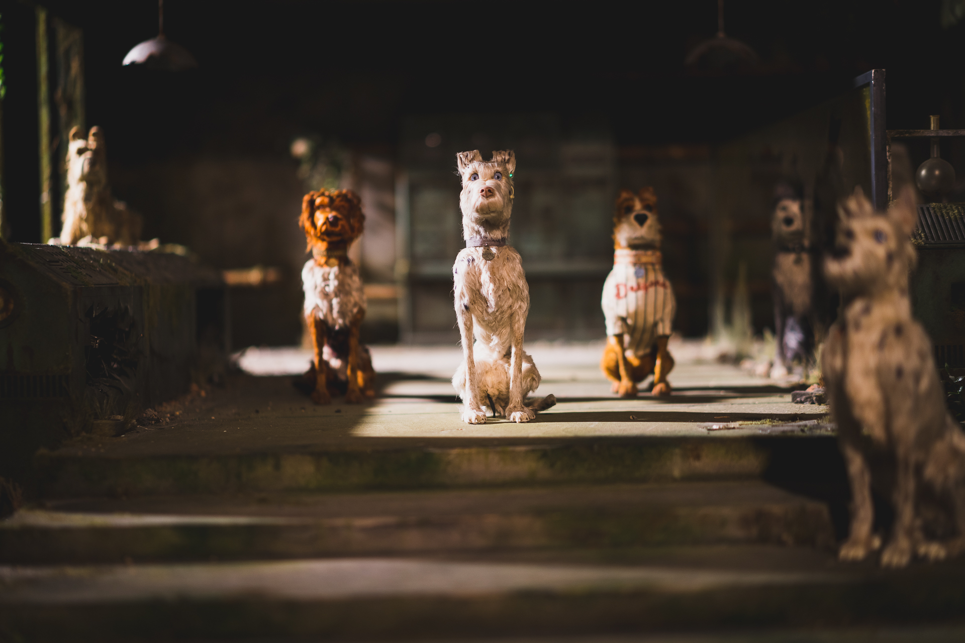 Sets from the film Isle of Dogs